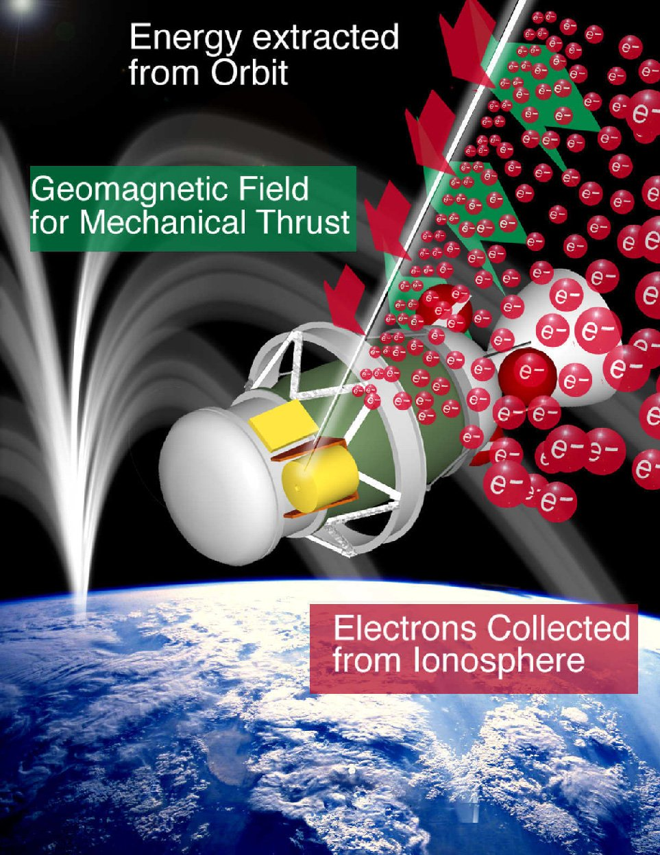 Artist's concept depicts how a propulsive tether system works.